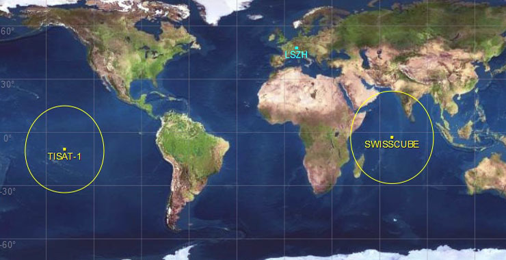 visibility of Swisscube and TIsat-1 CubeSat satellites